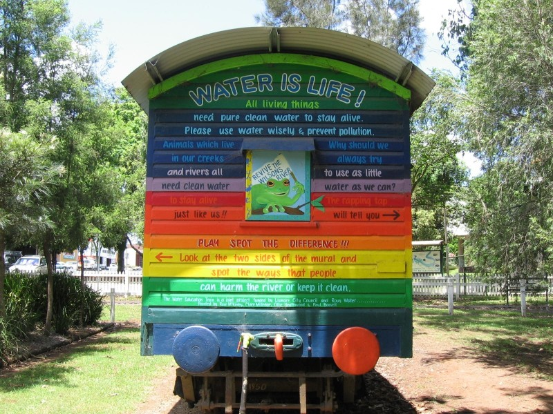 The Rainbow Train in Heritage Park, Lismore, Australia.